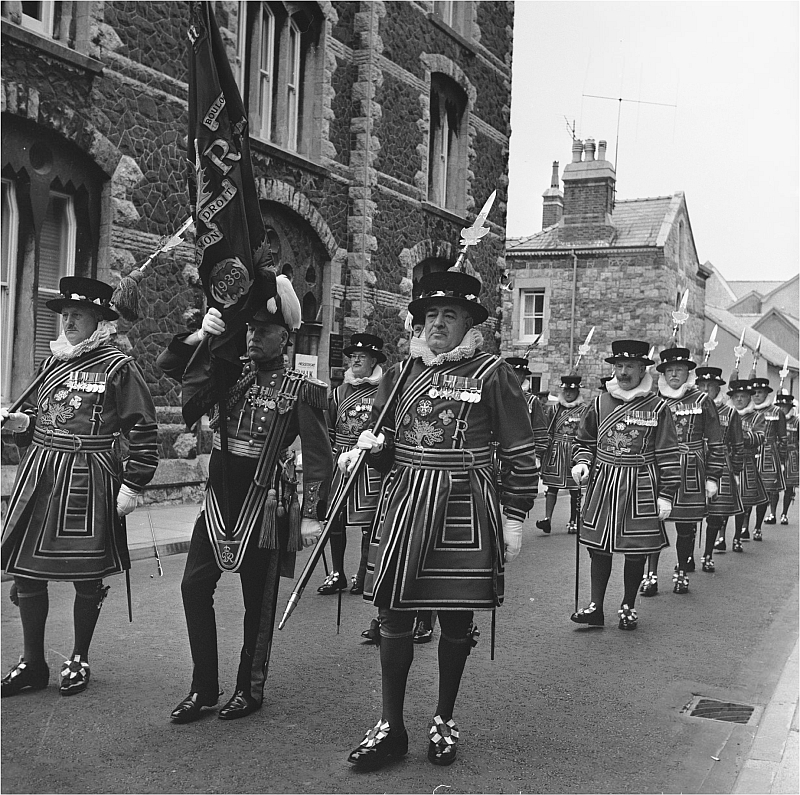 Photographs by Welsh photo journalist Geoff Charles Prince Charles' Investiture at Caernarfon Castle